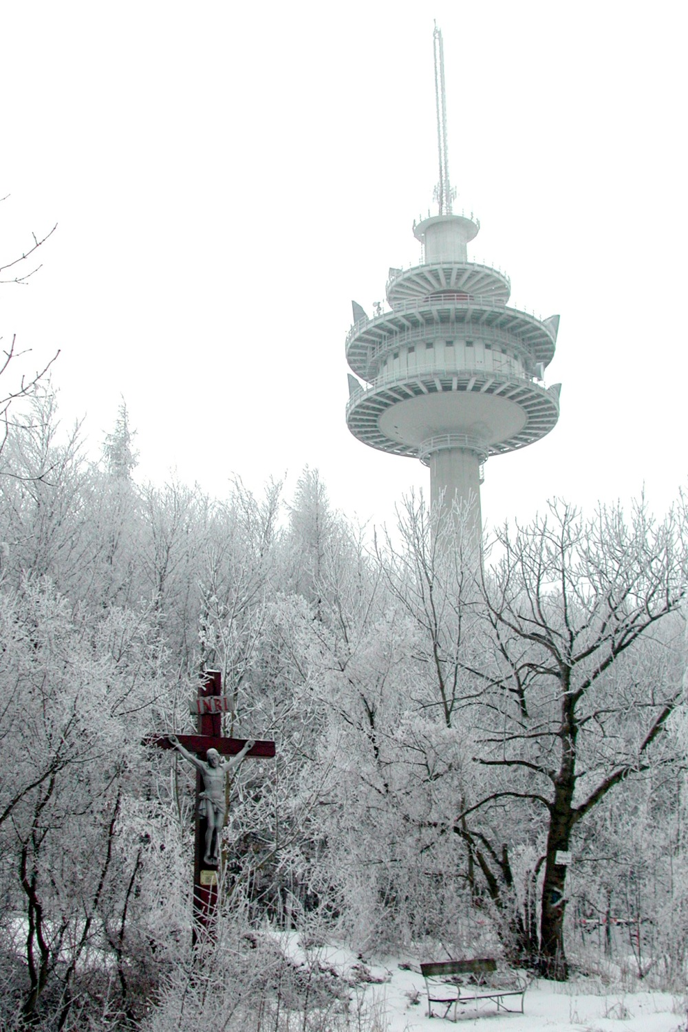 Exelberg radio tower near Vienna